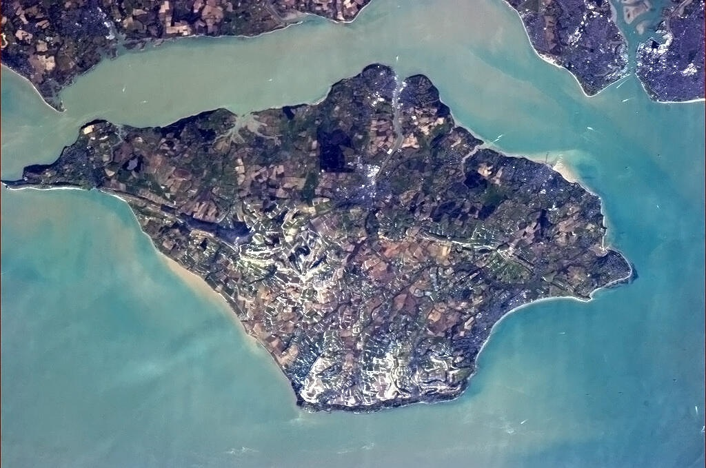 "There may never be a clearer picture of the Isle of Wight from space." Caption by astronaut Chris Hadfield on board the International Space Station. ISS Crew Earth Observations: ISS034-E-068340IdentificationMissionISS034 (Expedition 34)RollEFrame068340CameraCamera Focal Length400 mmCameraNIKON D3SQualityPercentage of Cloud Cover0-10%Nadir What is Nadir?Date2013-03-14Time09:10:07